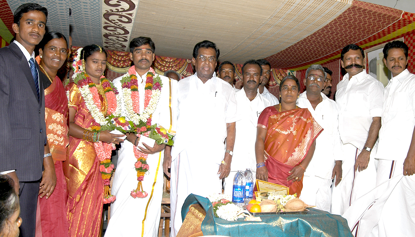 the new way of marriage in a public stage instead of the traditional way.Tamil Nadu local name - ' .th.tha thiru.ma.nam'